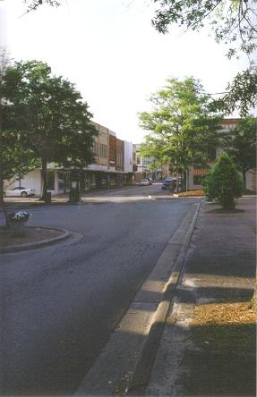 A view of Elm Street in Lumberton